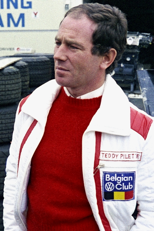 Belgian racing driver Teddy Pilette pictured in the summer of 1975 at Spa-Francorchamps in Belgium.